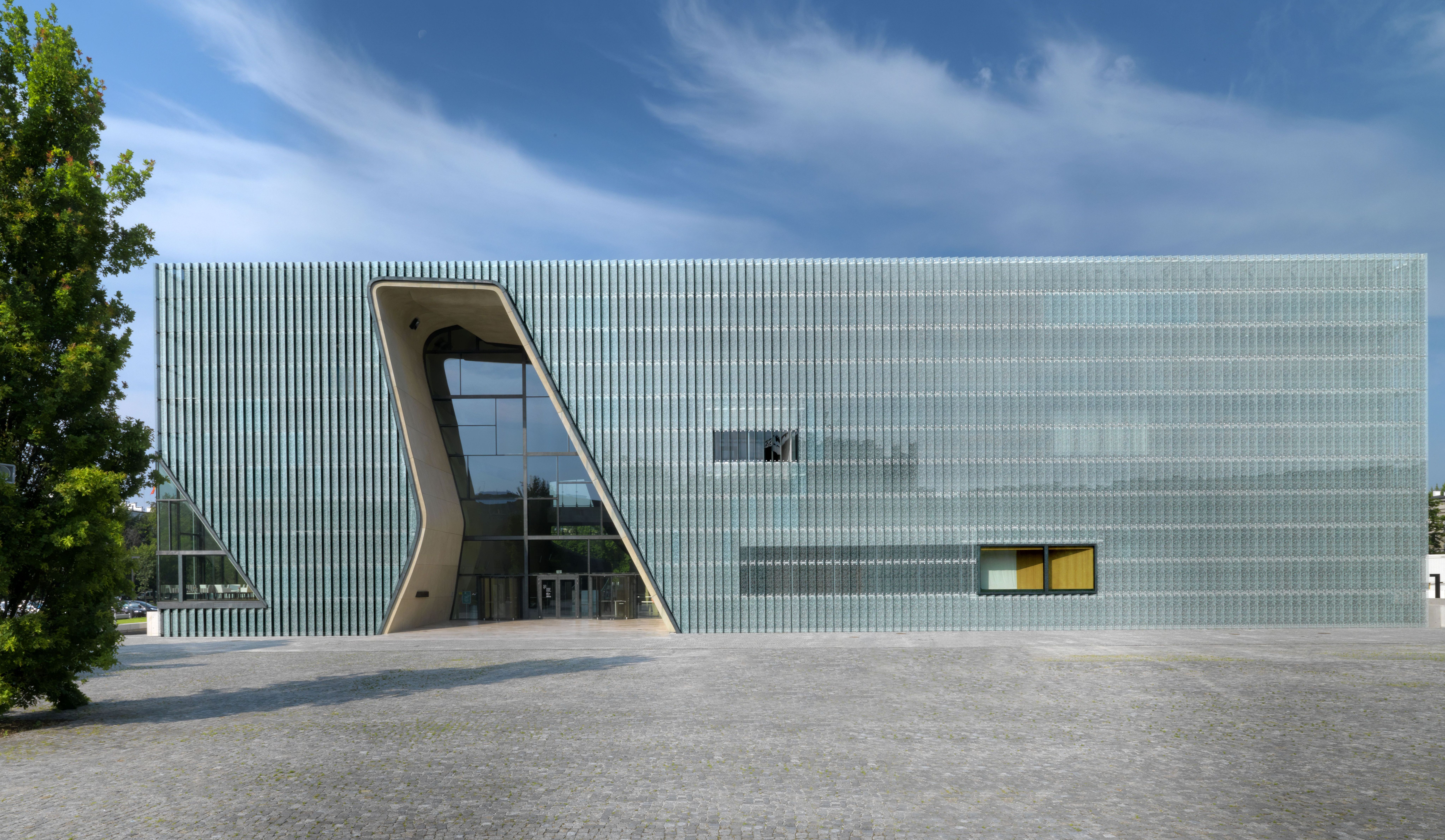 Building of the Museum of the History of Polish Jews in Warsaw viewed from Ludwik Zamenhof Street